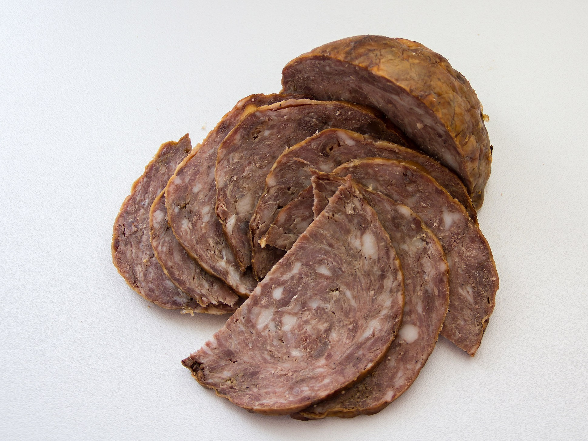 Shirtan (Shartan) - Chuvash national meat products.